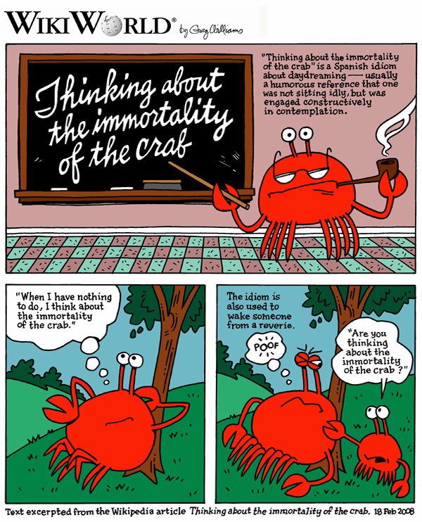 WikiWorld comic based on the article "Thinking about the immortality of the crab"